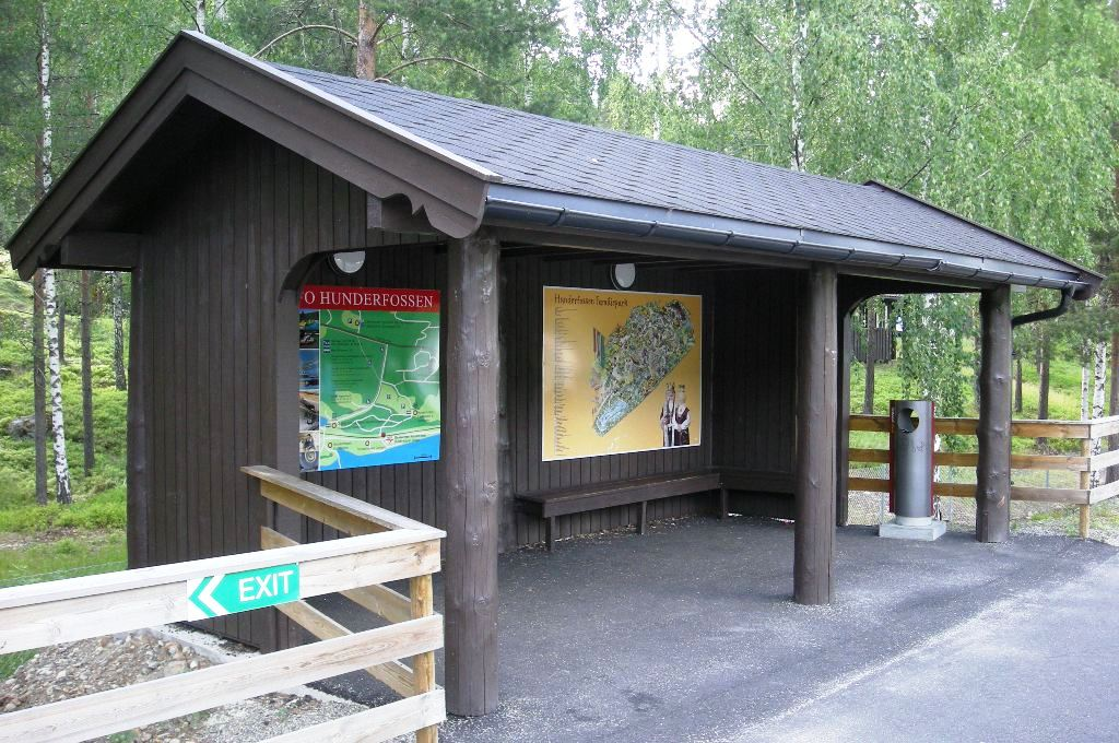 Hunderfossen station on the Dovre line (Oppland, Norway)